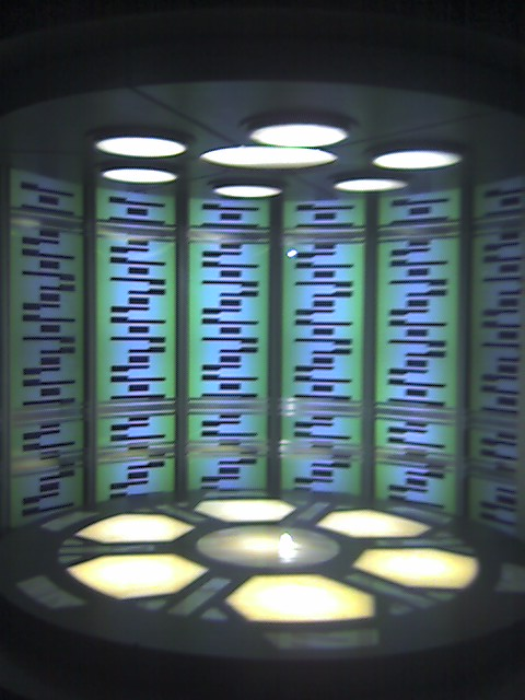 A "transporter" from the fictional universe of Star Trek, the name of the teleportation technology used in the starships in their "transporter rooms" as it's called, which are the rooms where teleportation is dealt. This transporter in its transporter room is in the starship USS Enterprise (NCC-1701-D) from the tv-series Star Trek: The Next Generation. Picture photographed in Star Trek Exhibit at Queen Mary Spruce Goose Dome in the city of Long Beach in California 20 February 2008.